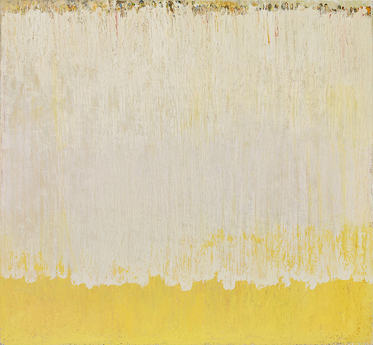 Christopher Le Brun, Follow, 2017, oil on canvas, 130 x 140 cm